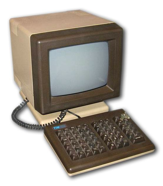 Picture shows TIM-100 computer teller workstation. My brother, Predrag Šušnjar, photographed the computer at the exhibition in Belgrade. I edited the photo slightly to make it more suitable for Wikipedia.